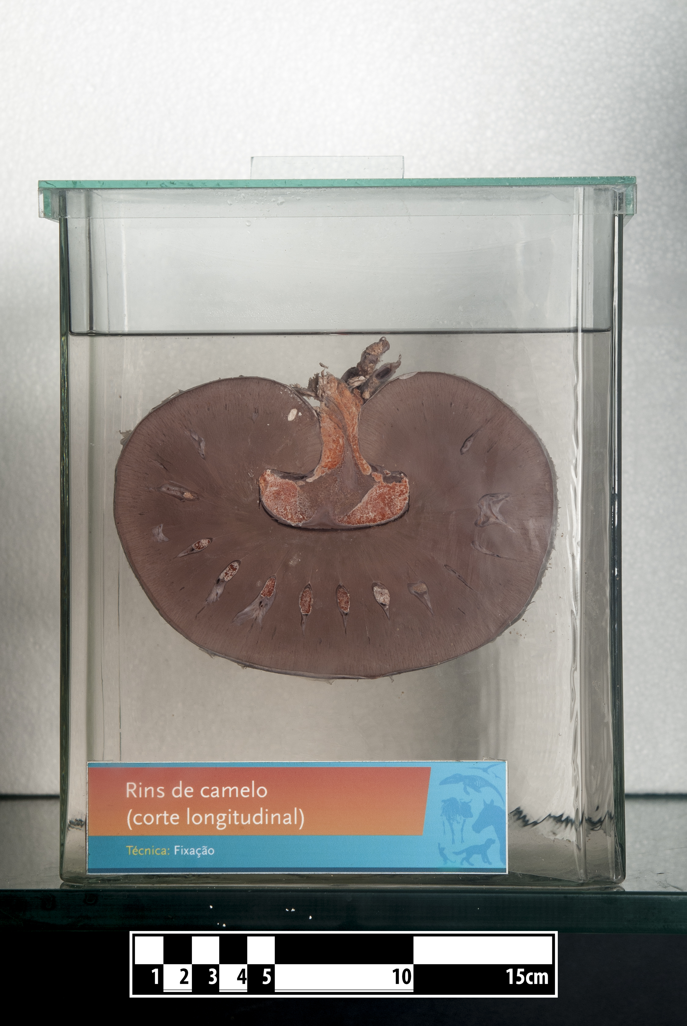 Camel kidney (longitudinal cut).Camelus bactrianus Technique of latex injection and formalin fixation on display at the Museum of Veterinary Anatomy, FMVZ USP. This file was published as the result of a partnership between the Museum of Veterinary Anatomy FMVZ USP, the RIDC NeuroMat and the Wikimedia Community User Group Brasil. This GLAM project is reported.